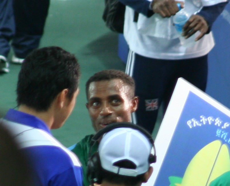 World Athletics Championships 2007 in Osaka - 10000 Meter winner Kenenisa Bekele after his victory